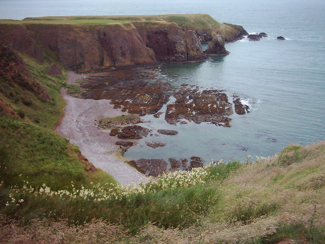 Bowdun Head and Castle Haven, near Stonehaven. Headland and bay viewed from the coastal path between Stonehaven and Dunottar Castle.